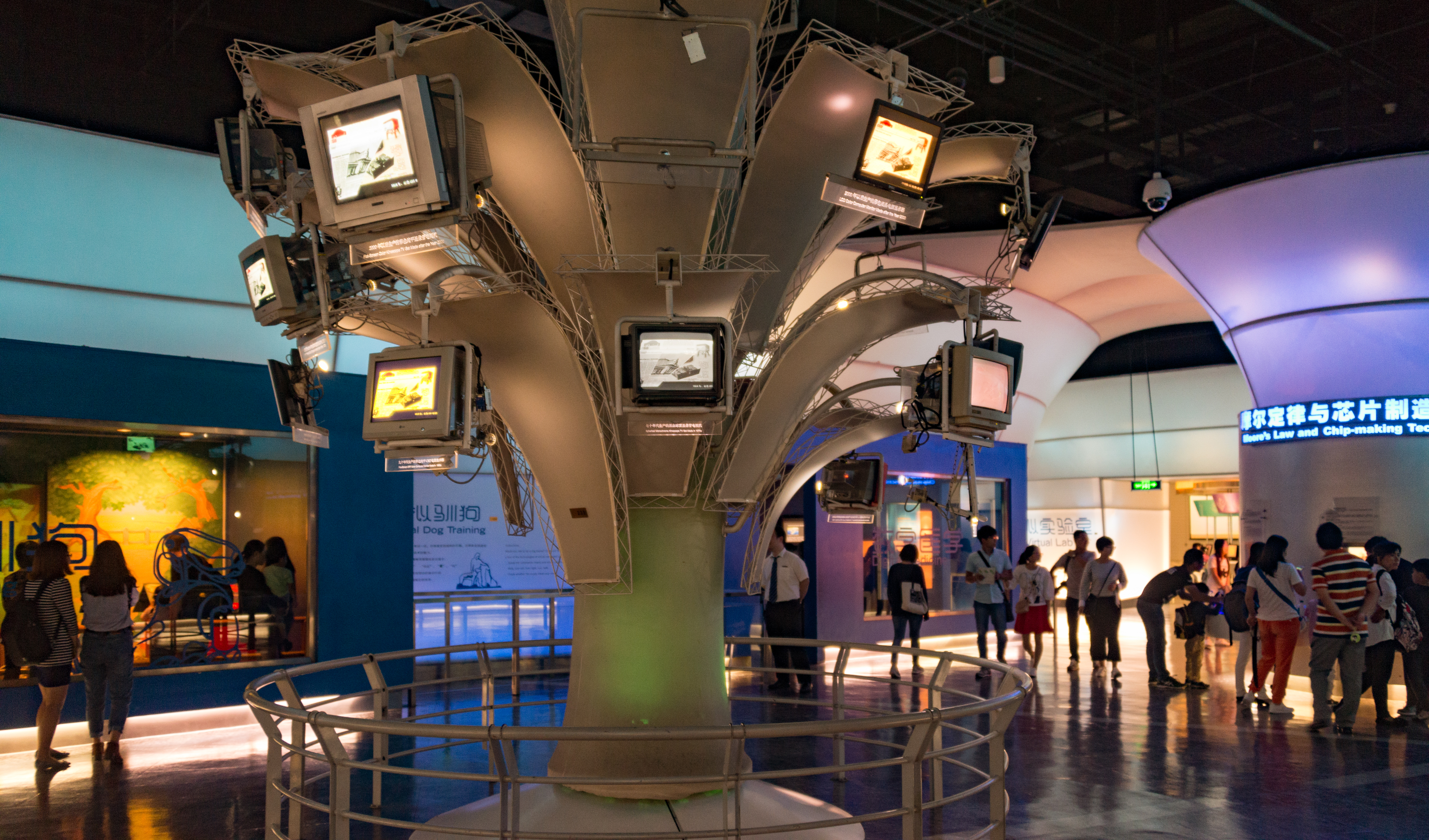 The "Information Era" exhibit at the Science and Technology Museum, Pudong New Area, Shanghai, China.